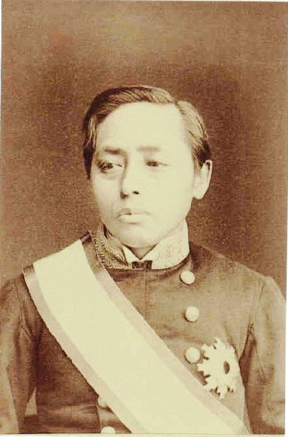 Yamada Akiyoshi, Japanese General and politician